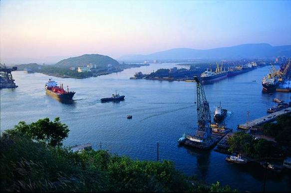 Port at Vizag విశాఖపటణ౦ ఓడరేవు